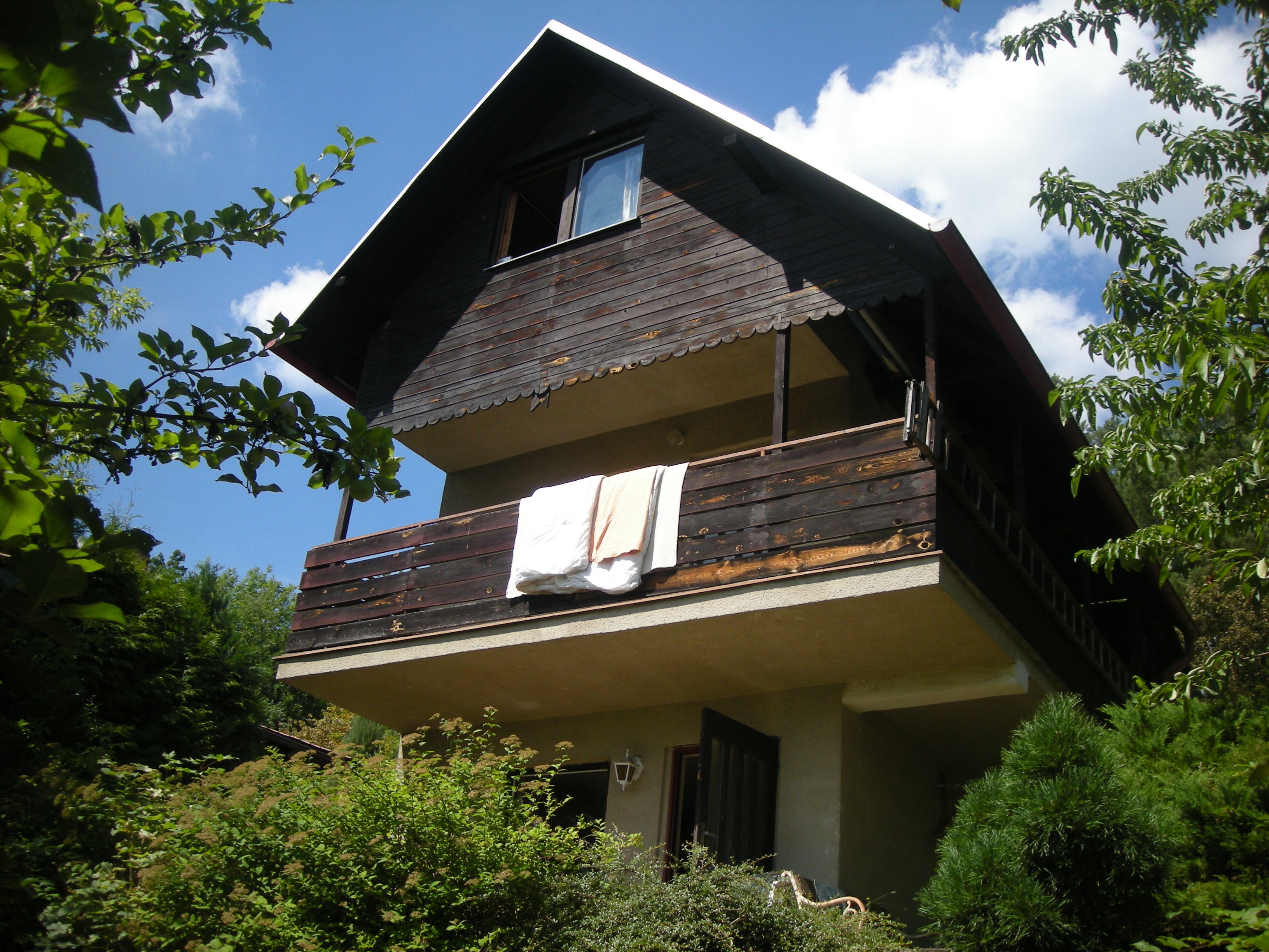 holiday cottage in a Stromec cottage colony, near Louti.